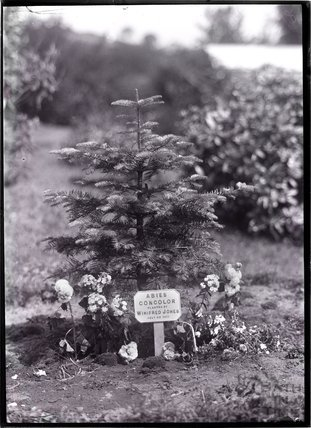 Tree planted by Winifred Jones. From a unique collection of glass plate negatives taken by Col. Linley Blathwayt of Eagle House, Batheaston, home of refuge for suffragettes between 1908 and 1912. He died in 1919. The pictures are made available in larger formats by . - who claim copyright of these 100 year old plus published pictures